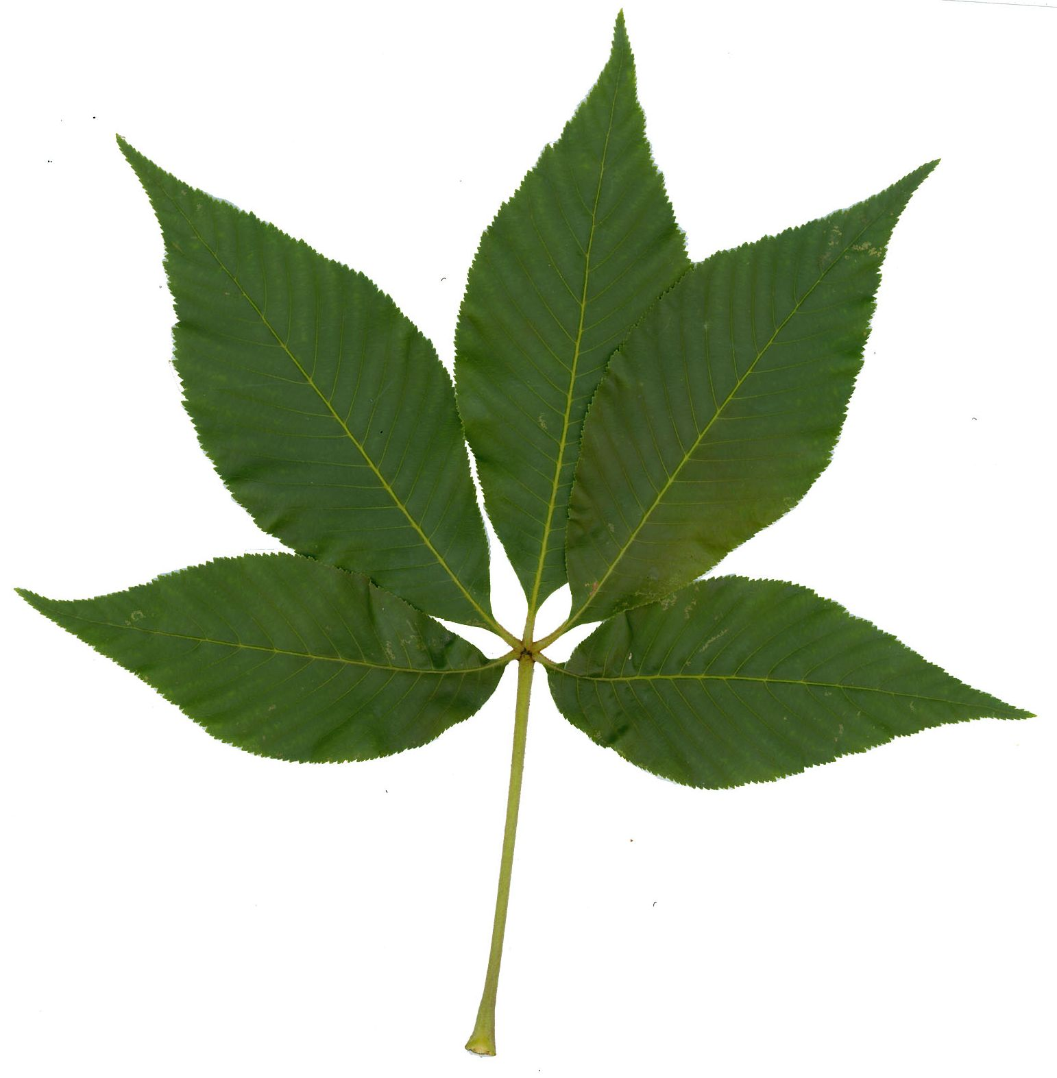 Leaf of Yellow Buckeye Aesculus flava, from a tree at Strouds Run State Park, Athens, Ohio